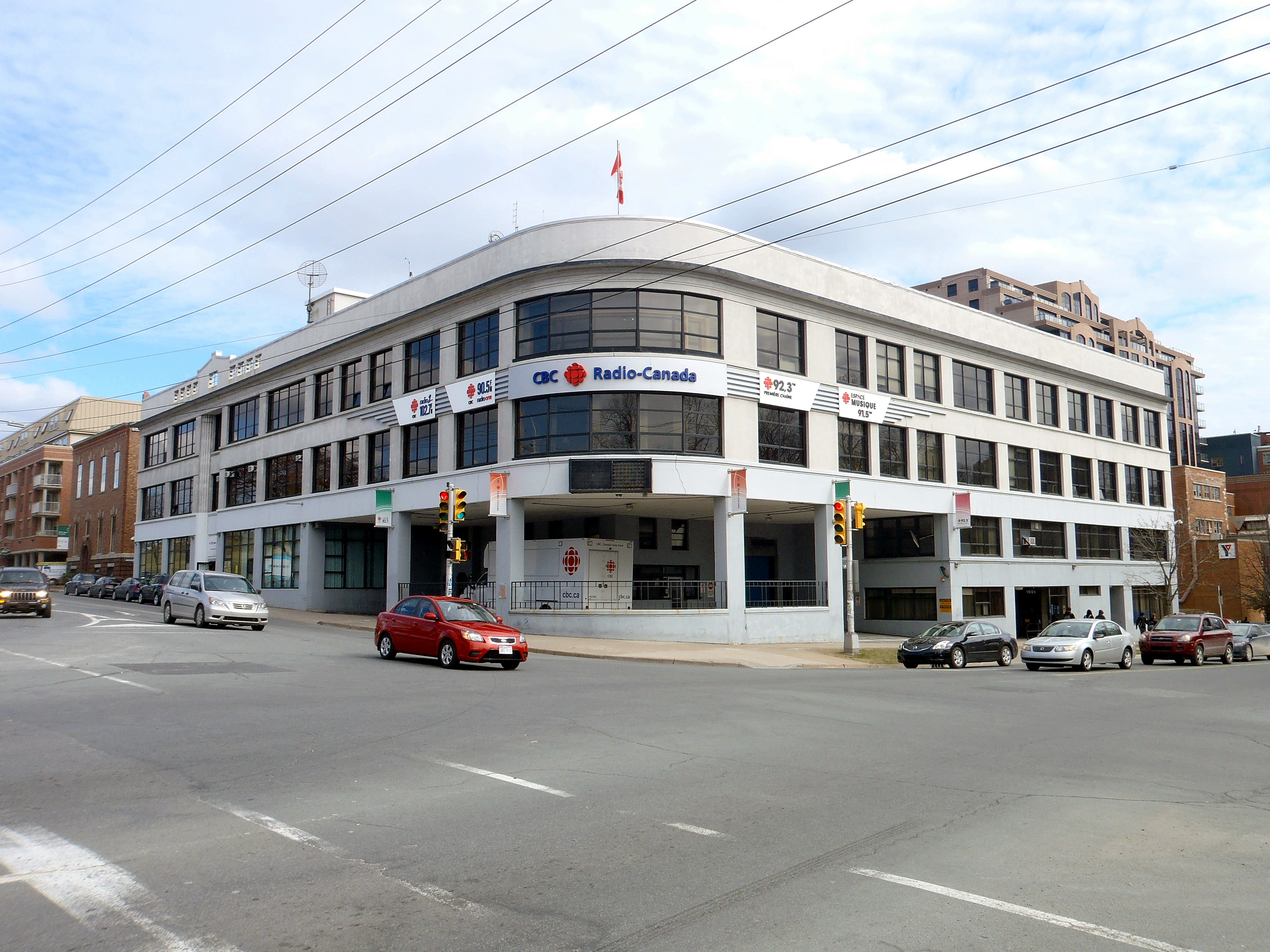 The CBC Radio building on the corner of Sackville and South Park streets, Halifax, Nova Scotia, Canada. In 2010, the CBC agreed to sell the building to developers to be demolished and replaced with condos, with radio operations moving to an expanded CBC Television building on Bell Road. It was torn down in 2016.